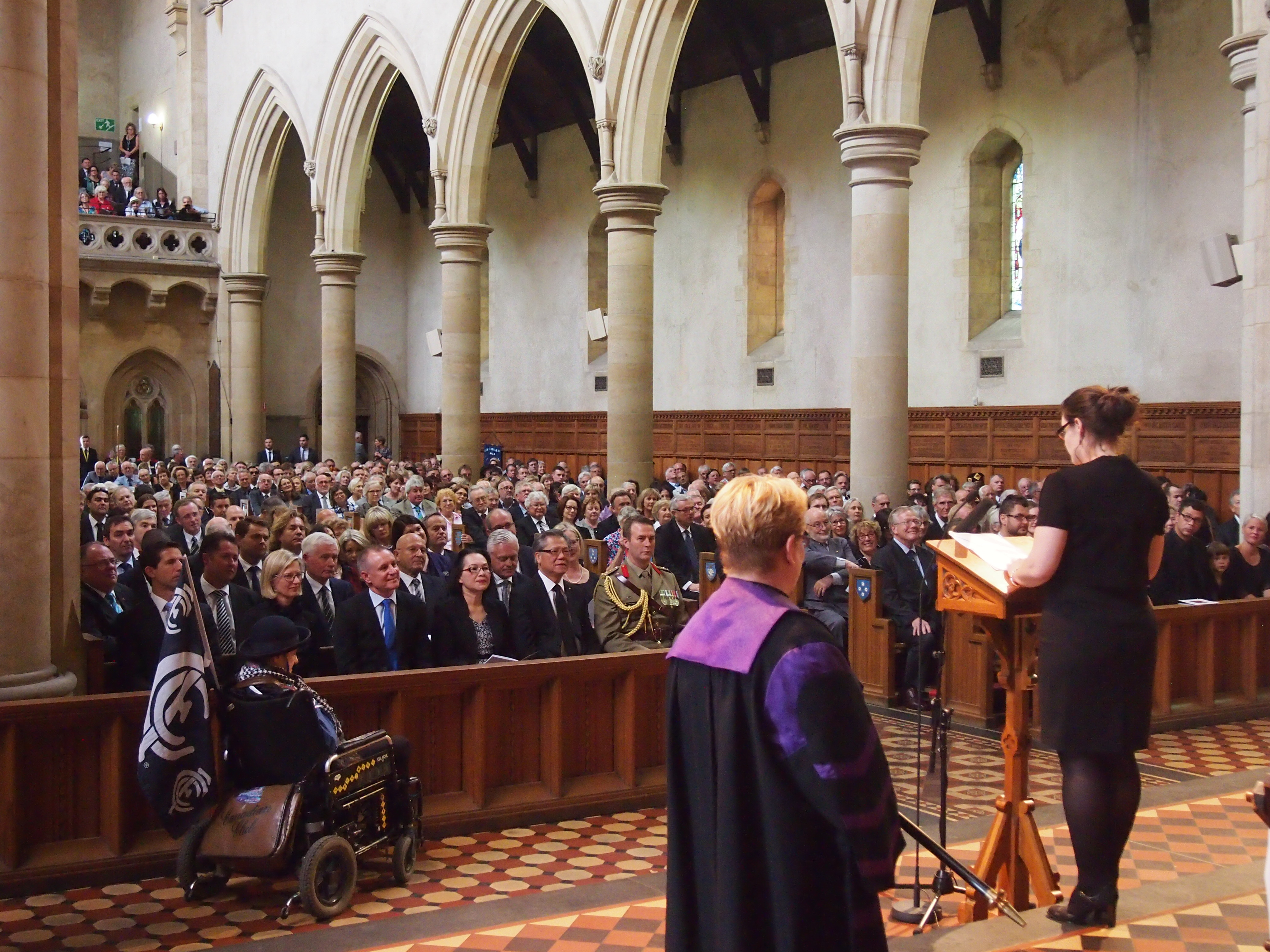 Victoria Bannon eulogising her father John Bannon at his state funeral, St Peter's Cathedral, 21 December 2015. Original filename = PC217260.JPG. (The last photo taken before being asked to leave by an unfriendly protocol droid, as "not being official media".)